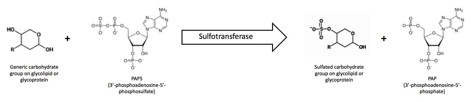 A general sulfotransferase reaction where PAPS is the activated sulfate donor.